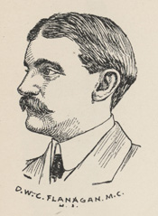 De Witt C. Flanagan, US Representative from New Jersey